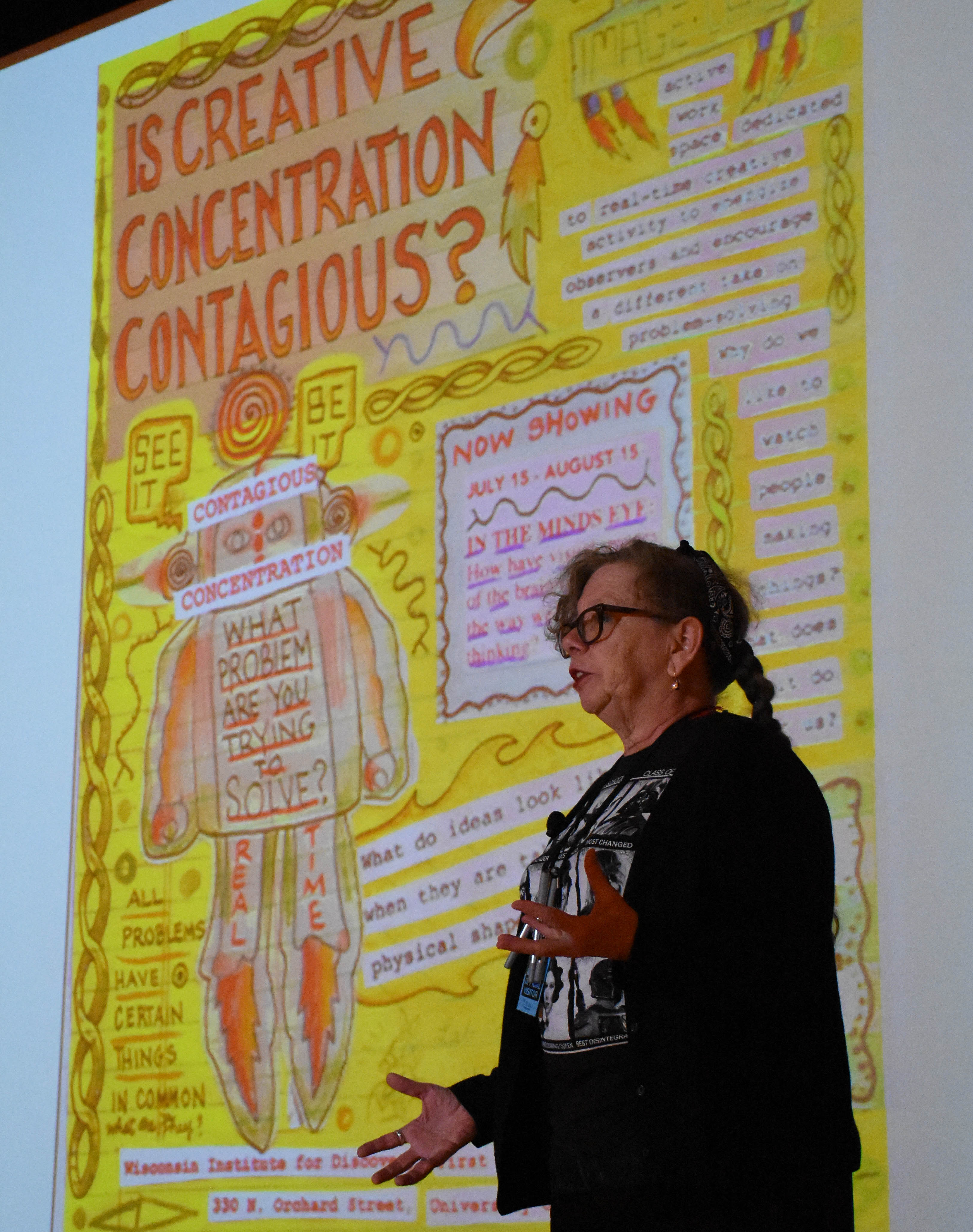 Cartoonist and professor of creativity Lynda Barry presented the benefits of creativity in everyday life as part of Goddard's Office of Communications Story Lab seminar series. Read more: Credit: NASA/Goddard/Rebecca Roth NASA image use policy. NASA Goddard Space Flight Center enables NASA’s mission through four scientific endeavors: Earth Science, Heliophysics, Solar System Exploration, and Astrophysics. Goddard plays a leading role in NASA’s accomplishments by contributing compelling scientific knowledge to advance the Agency’s mission. Follow us on Twitter Like us on Facebook Find us on Instagram